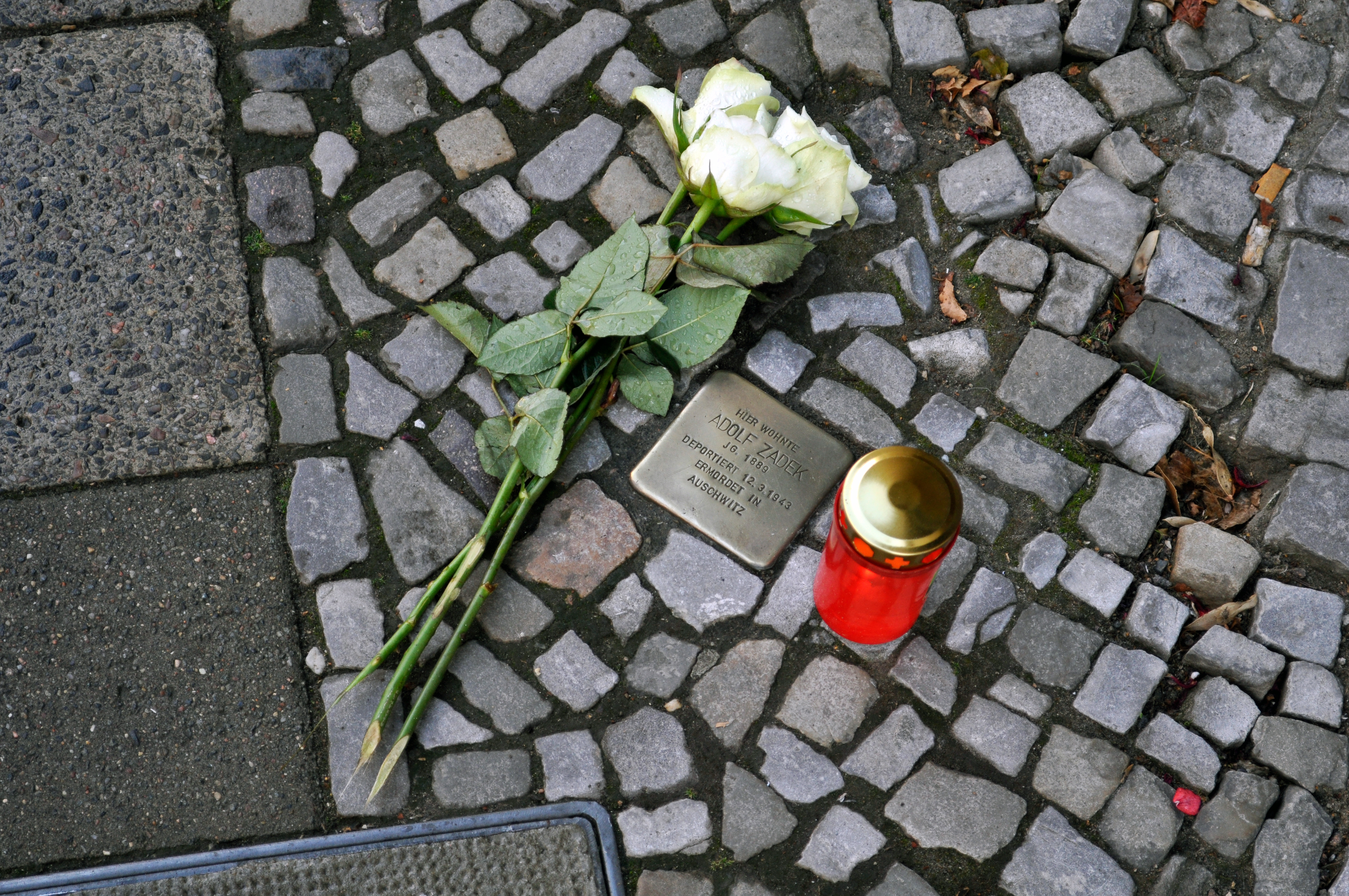 Stolperstein for Adolf Zadek in front of Marienstrasse 15 in Berlin Mitte